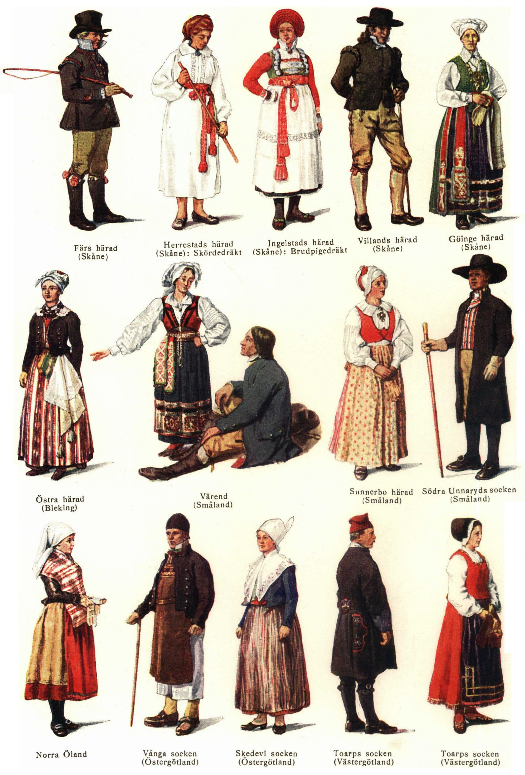 Swedish National costumes